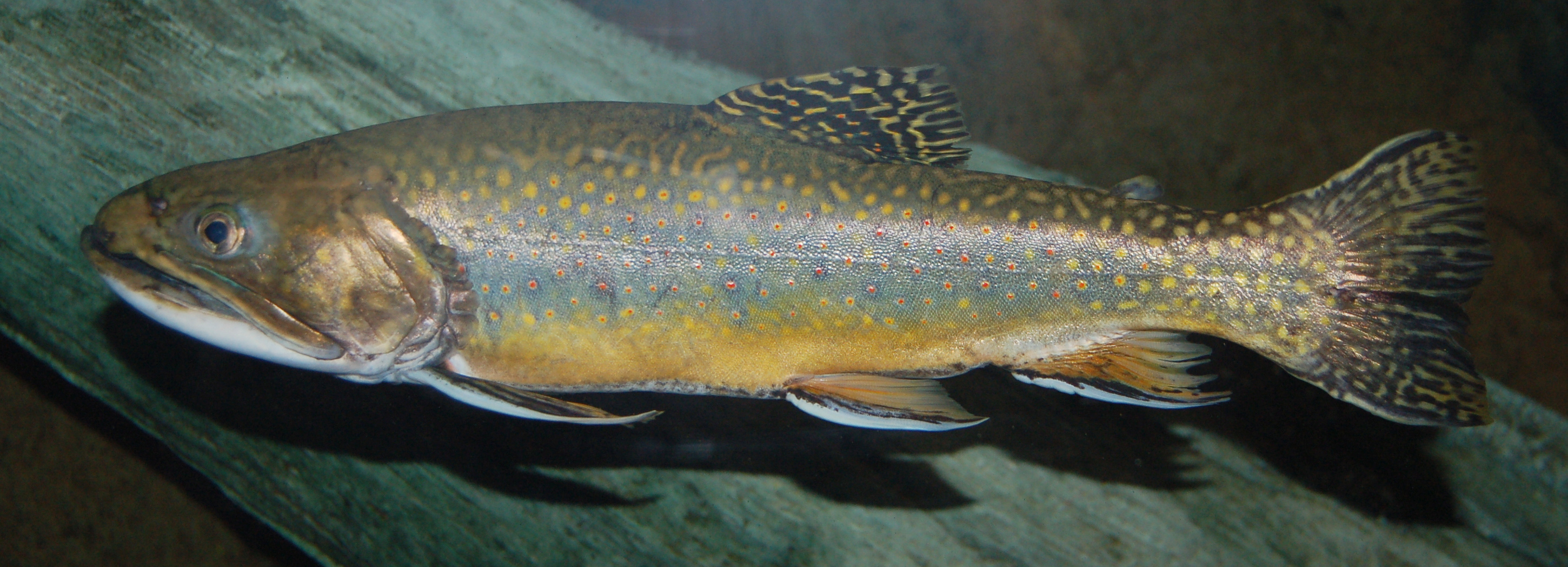 A photograph of Brook Trouten (Salvelinus fontinalis en ). Photo taken at the Pittsburgh Zoo.